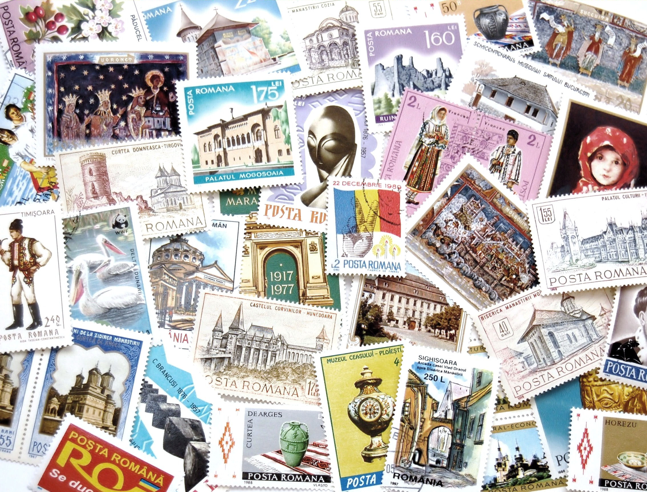 Many Stamps of Romania